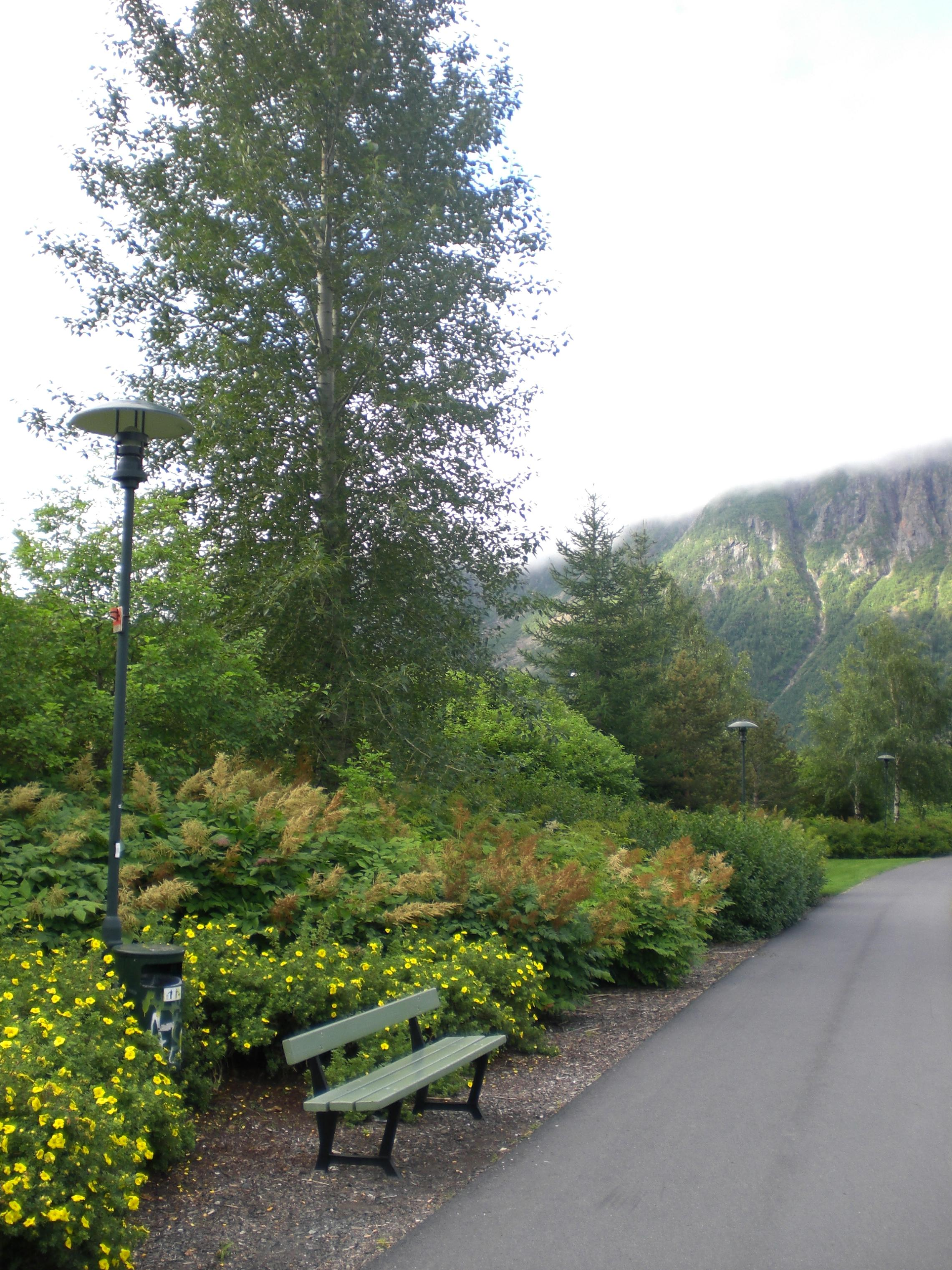 Skjervpromenaden (The Skjerva Promenade) in Mosjøen, Norway.